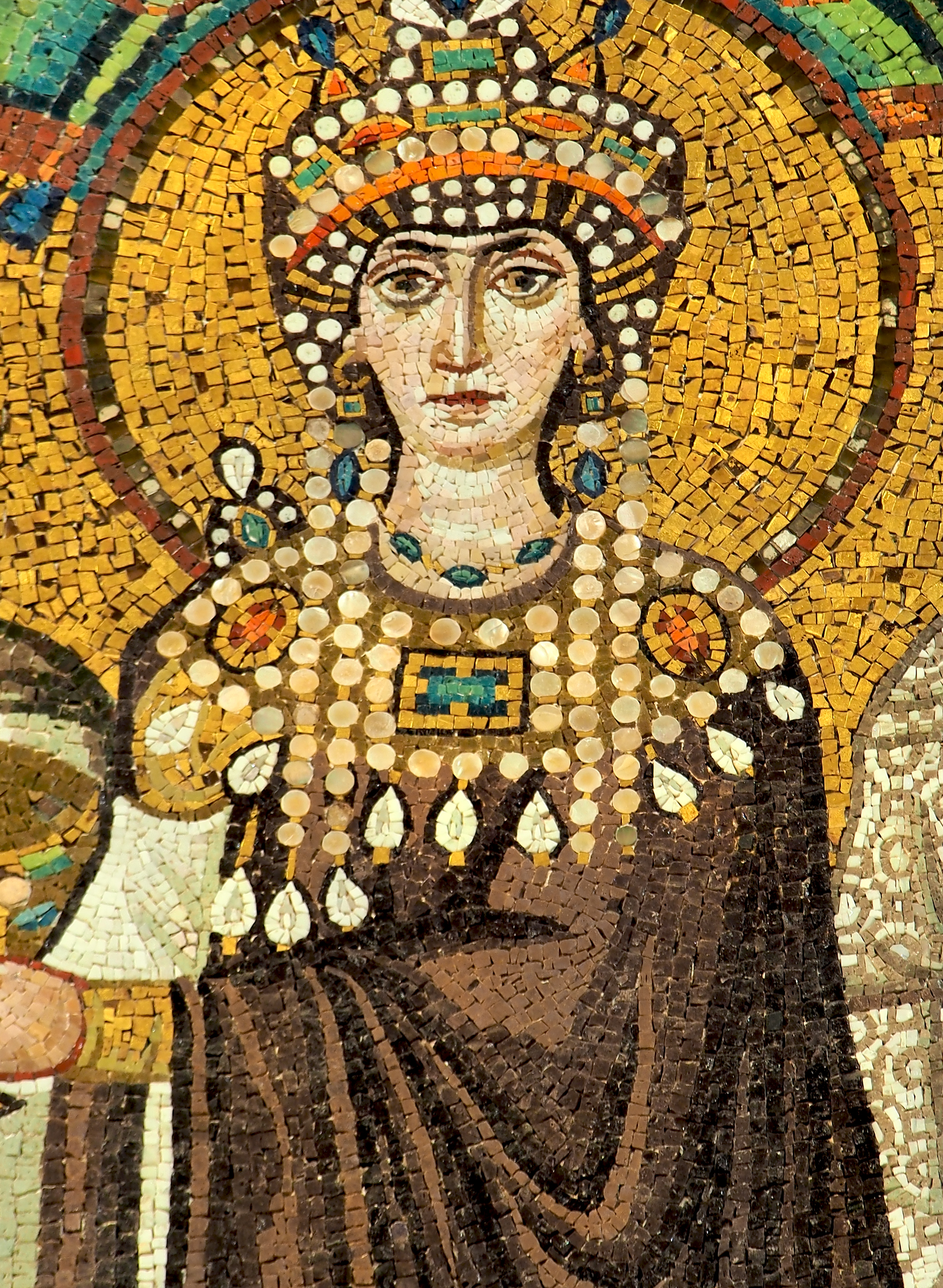 Mosaic of Theodora - Basilica of San Vitale (built A.D. 547), Italy. UNESCO World heritage site. This photograph was taken with an Olympus E-P5